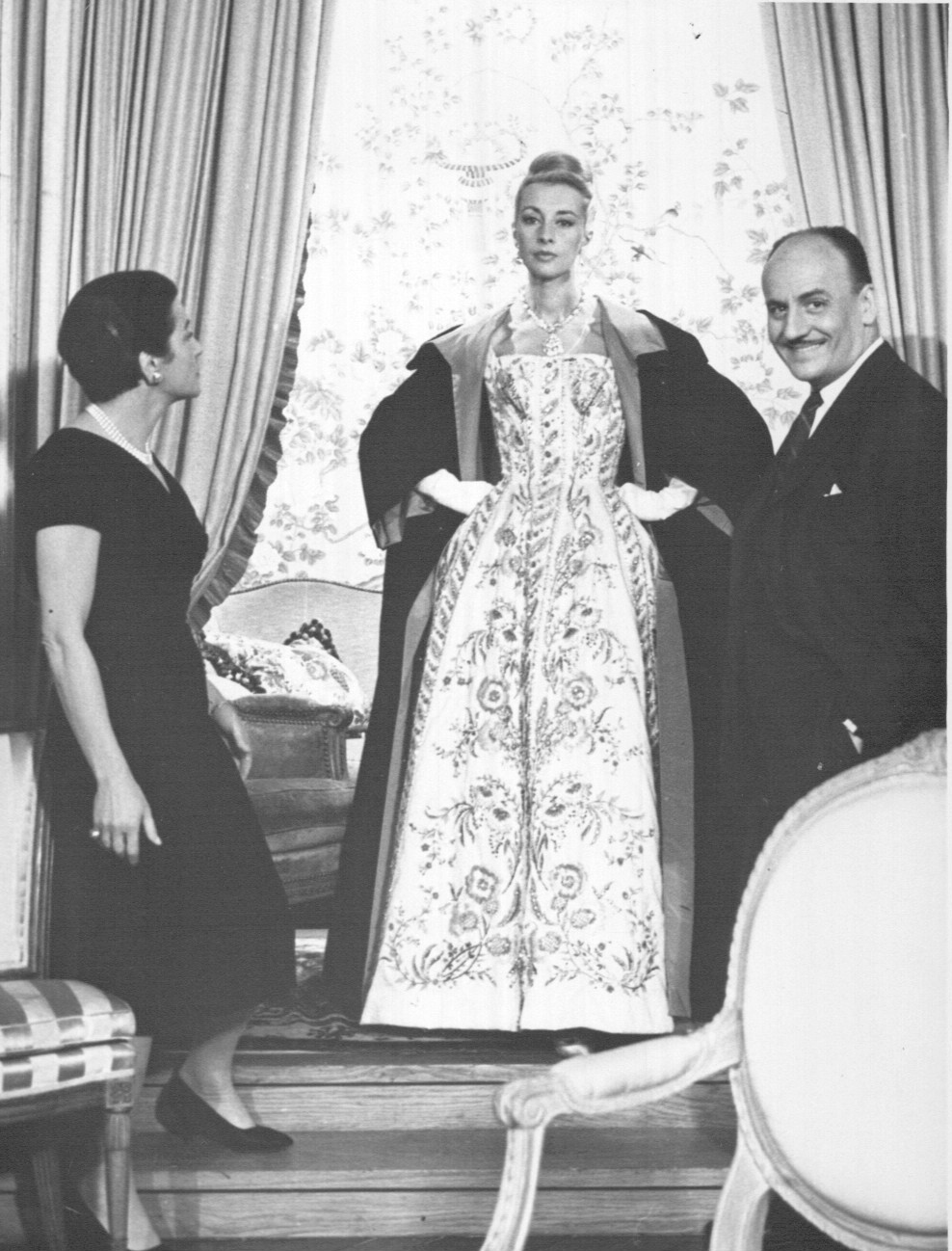 Photo of Madame Ginette Spanier, model Marie Teresa and designer Pierre Balmain at Balmain's home in Croissy (Paris suburb). Balmain was the subject of a CBS-TV Person to Person interview which aired in January 1960. The interview was filmed for broadcast in the US. The item has no copyright markings on it as can be seen in the links above.